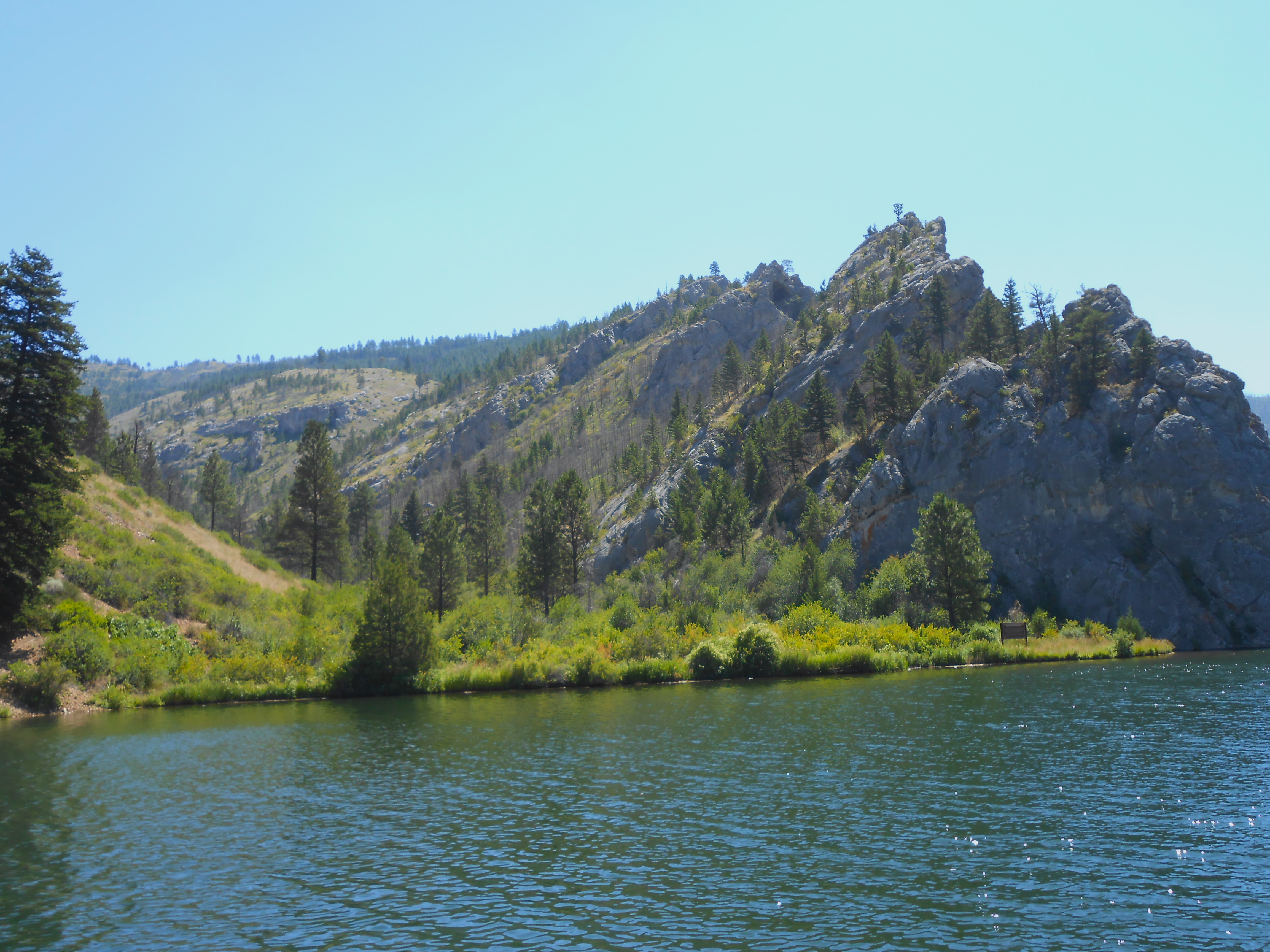 Mouth of Mann Gulch — on the Missouri River, in the Gates of the Mountains Wilderness Area of the Helena National Forest. Located in Lewis and Clark County, Montana.